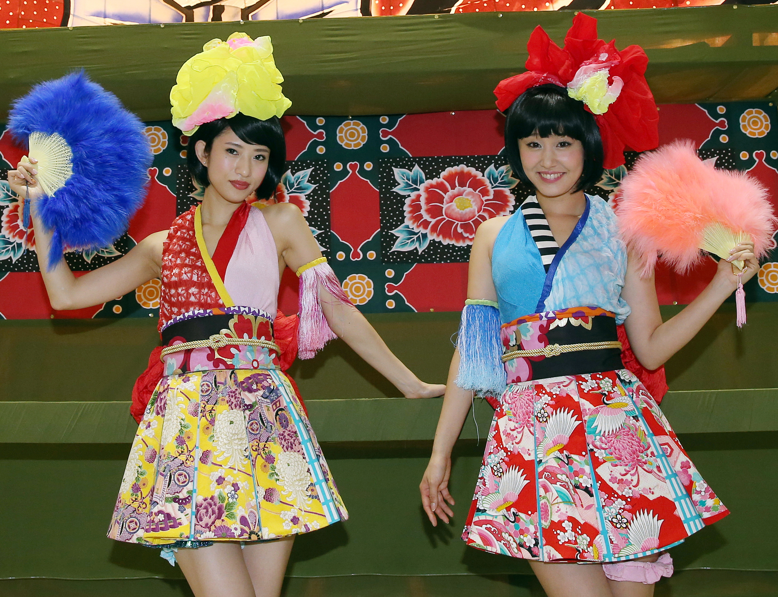 Yanakiku (ヤナキク) at Korea-Japan Festival 2014 in Seoul